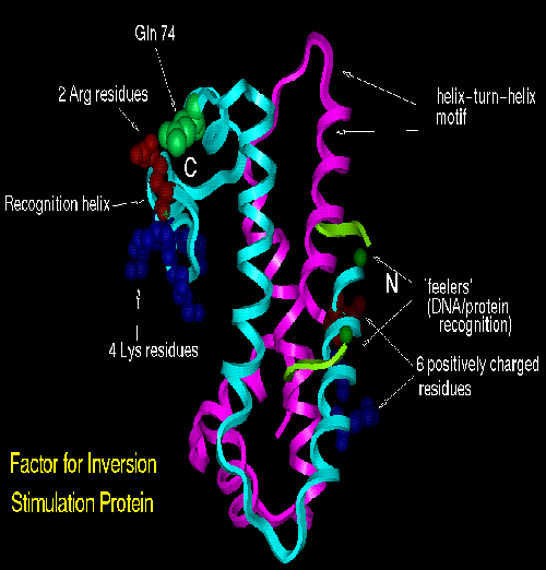 Transcriptional activator for rRNA operons, bends DNA; interacts with RNAP; nucleoid-associated protein; dimeric [1] Standard Name = fis Full name = factor for inversion stimulation Gene synonyms = ECK3248, b3261, JW3229, nbp [2] synonyms = global DNA-binding transcriptional dual regulator [3], B3261 [4][5], Nbp [6][7], site-specific DNA inversion stimulation factor; DNA-binding protein; a trans activator for transcription [8][9] Length = 98 Molecular Weight = 11.239 kDa